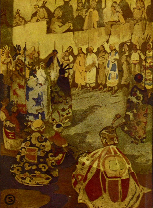 Frontispiece to Canadian Wonder Tales, 1917, with illustration by George Sheringham This illustration was published in 1917.